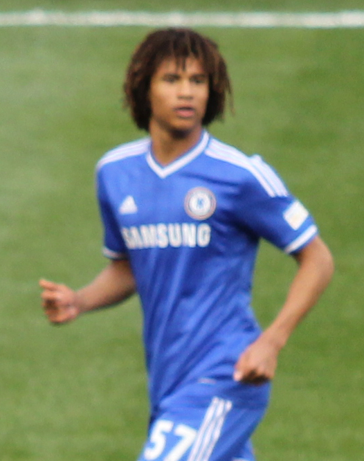 Chelsea FC-17